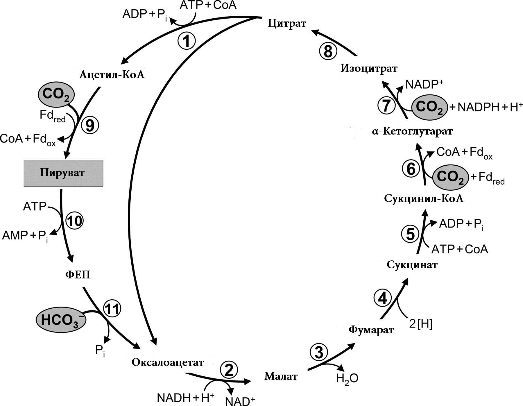 Arnon Cycle for green sulfur bacteria. 1, ATP-citrate lyase; 2, malate dehydrogenase; 3, fumarate hydratase; 4, fumarate reductase (natural electron donor is not known); 5, succinyl-CoA synthetase; 6, ferredoxin (Fd)-dependent 2-oxoglutarate synthase; 7, isocitrate dehydrogenase; 8, aconitate hydratase; 9, Fd-dependent pyruvate synthase; 10, PEP synthase; 11, PEP carboxylase.